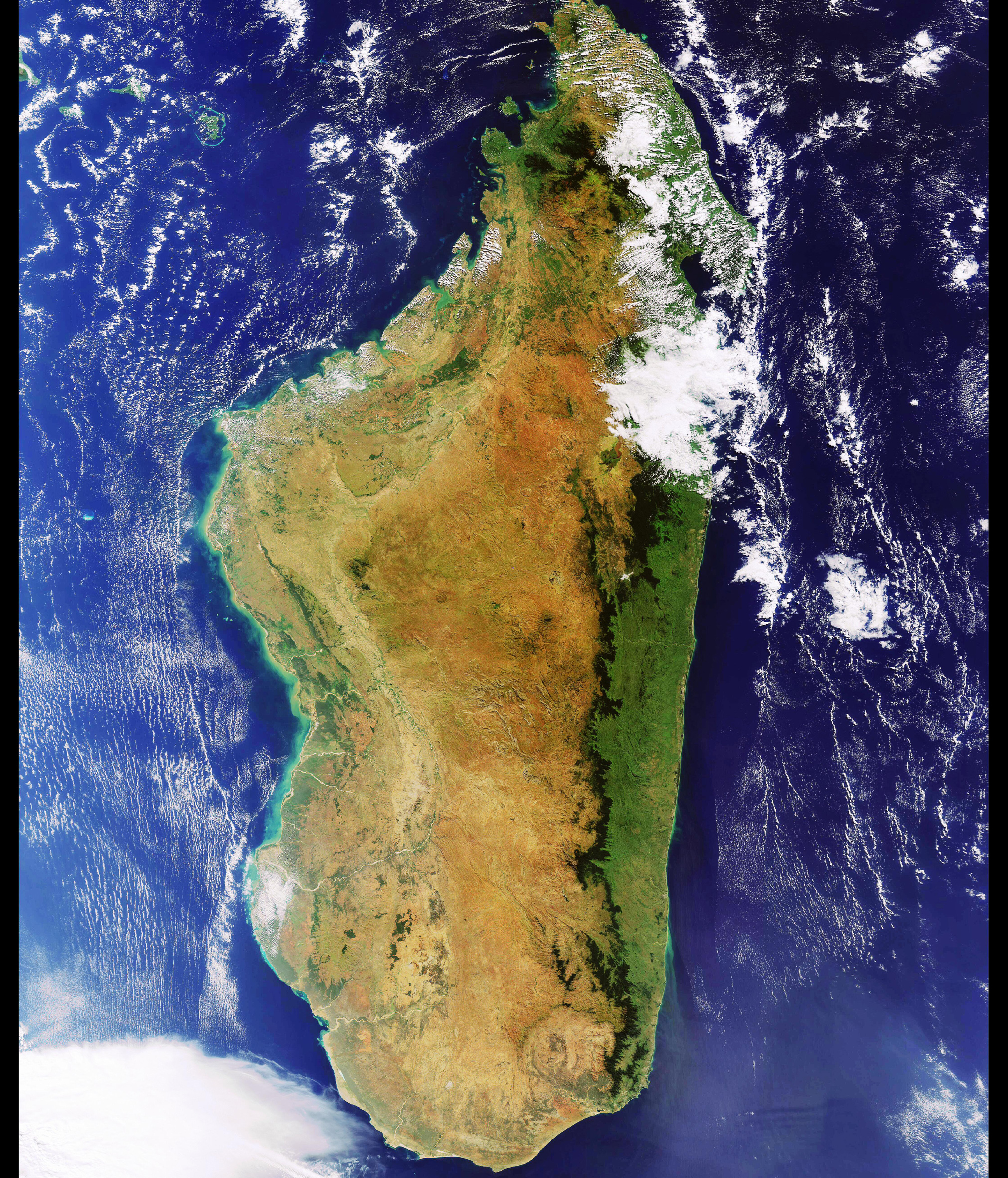 A virtually cloudless image of Madagascar, acquired by Envisat's MERIS on 21 May 2006.